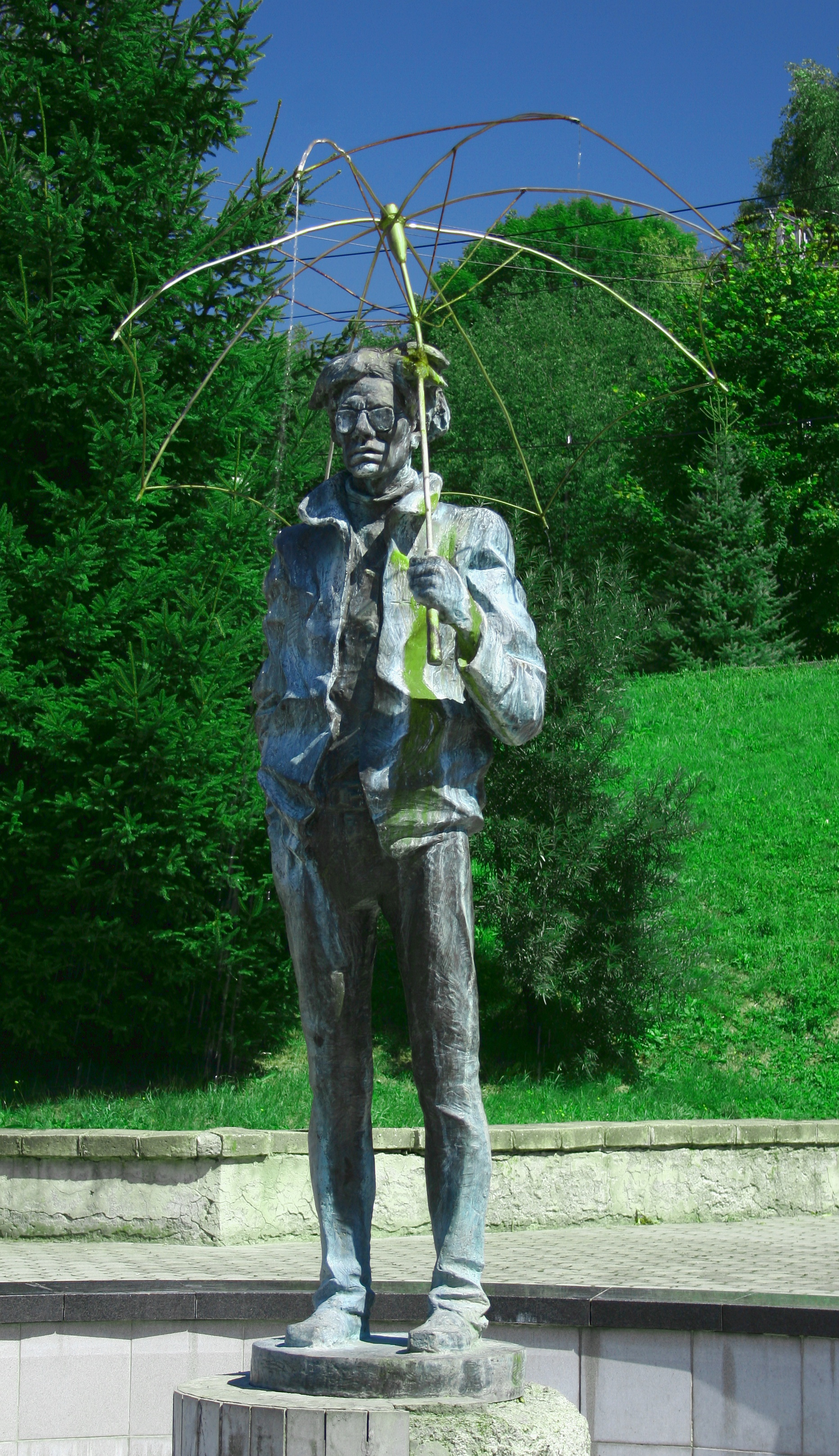 statue of Andy Warhol in Medzilaborce, Slovakia - mix